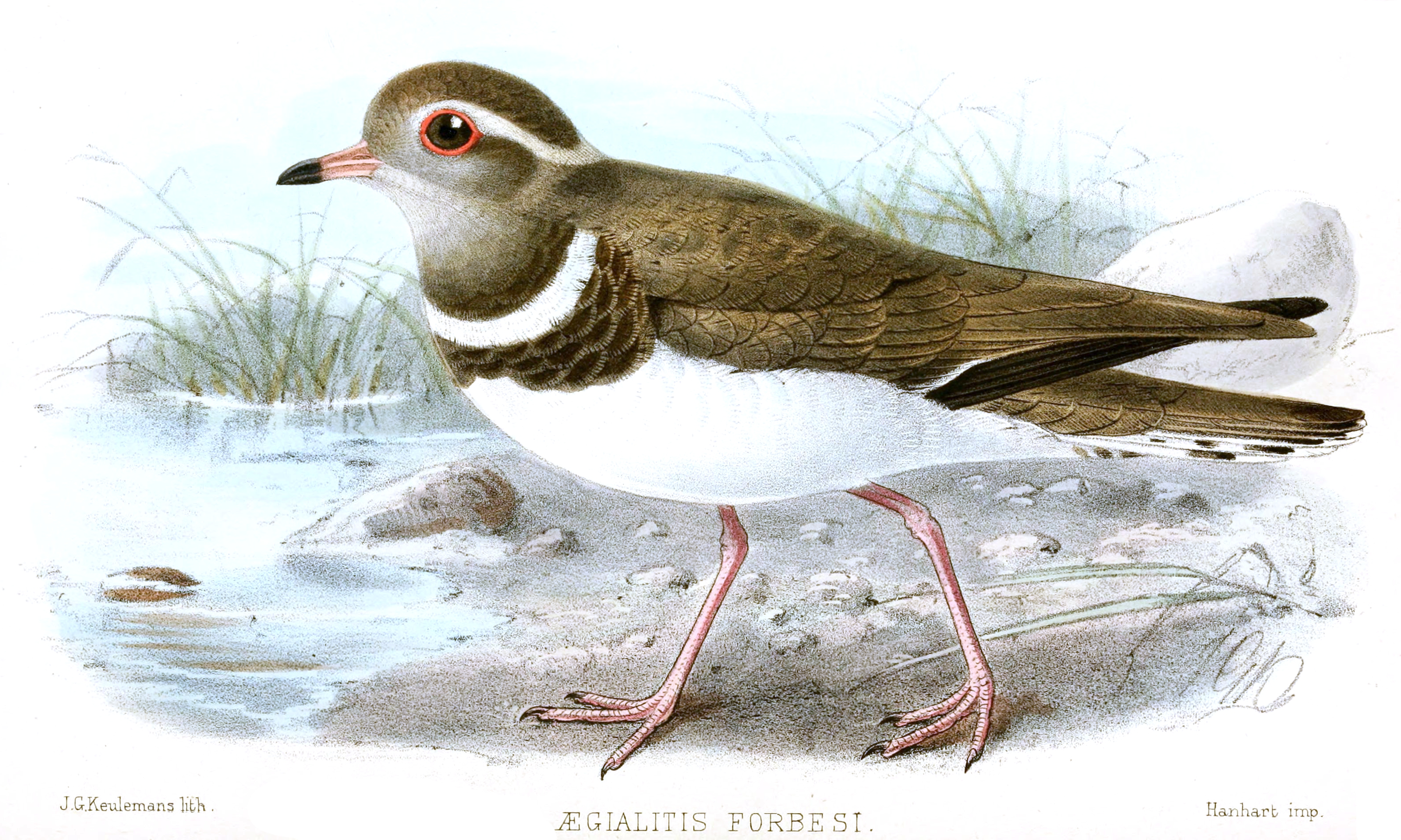 Aegialitis forbesi = Charadrius forbesi